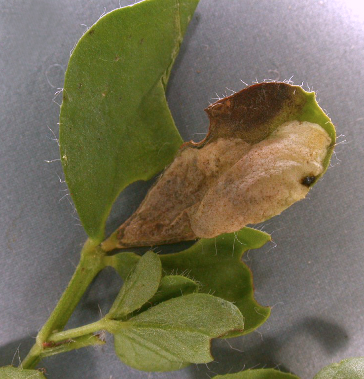 Levarchama cryptella mine in Lotus, Bala lakeshore, North Wales, Aug 2005